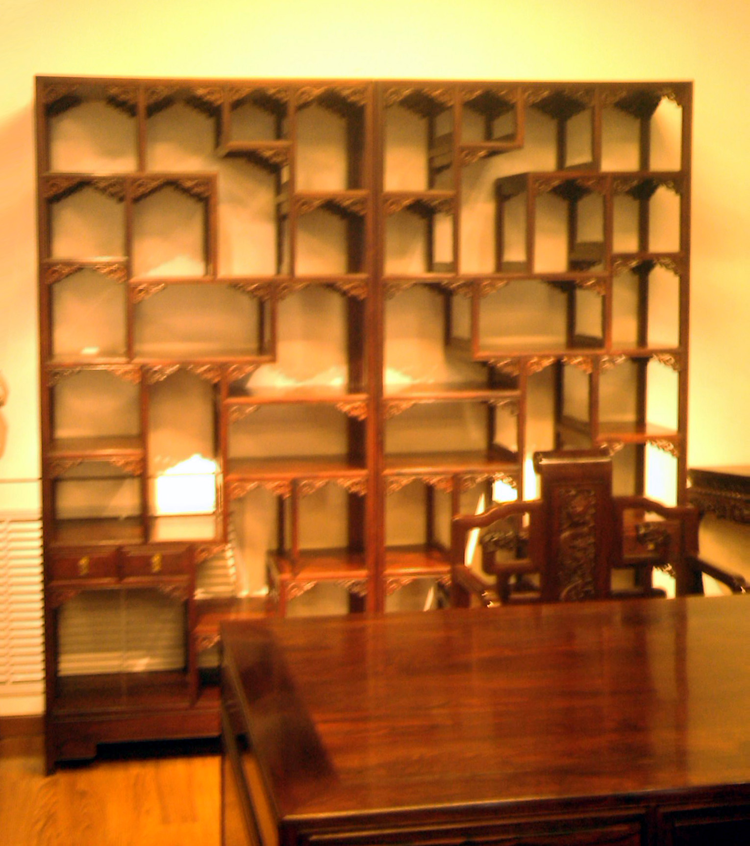 A pair of chinese shelves.